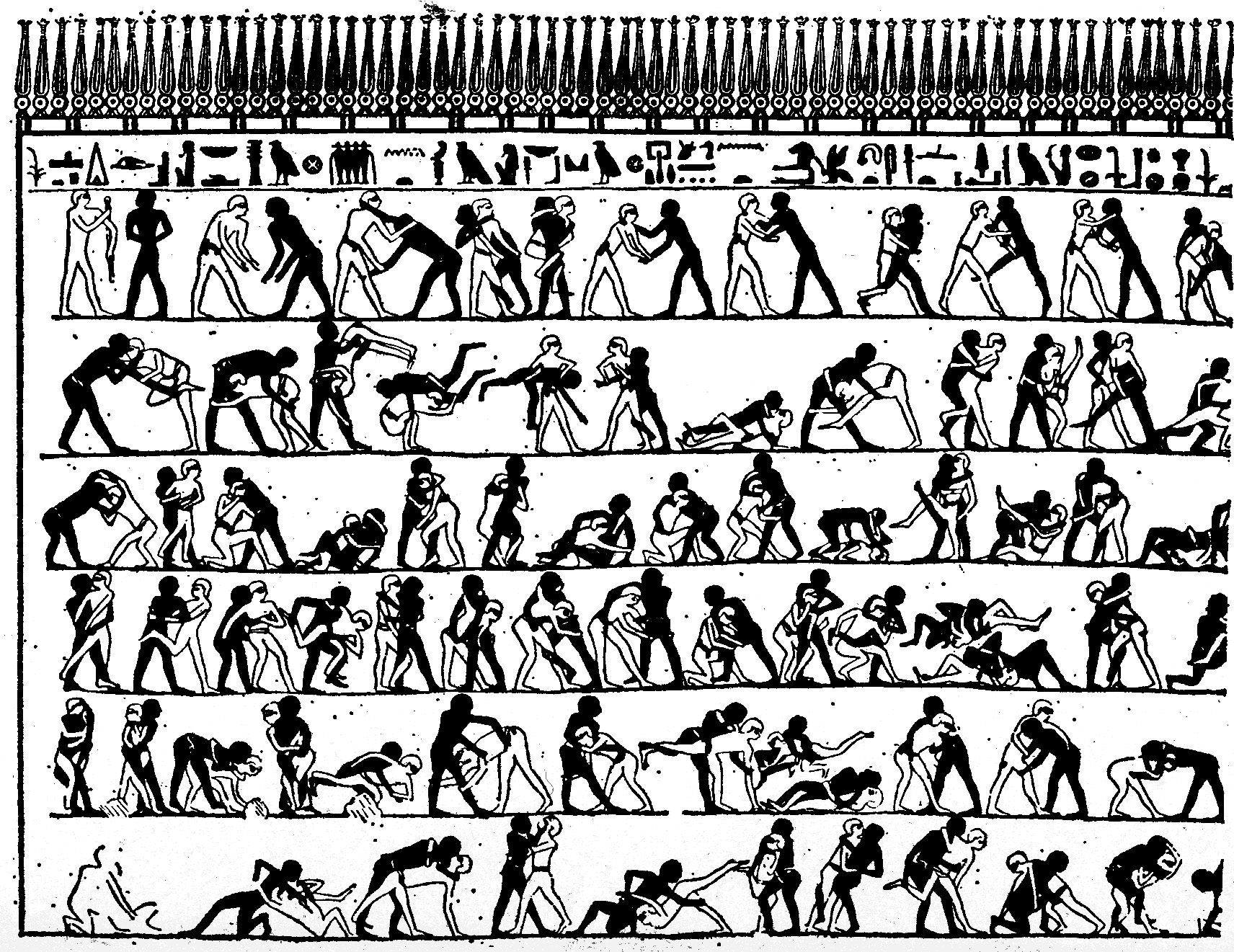 Egyptian, wrestling scene on east wall, tomb of Baqt at Beni Hasan. Necropolis in use 11th and 12th Dynasties (ca. 2000 BCE). Upper left portion of a nineteenth century line draft reproducing original mural in tomb, which was a polychrome of red human figures within Egyptian-style horizontal registers, showing successive moments of a wrestling match between two people, whose skin tones, white and black in the draft, were two shades of the red used on the tomb wall. See p. 47 (tomb 15) & Plate V in Percy Newberry, Beni Hasan Part II, Archaeological Survey of Egypt, F. Griffith Ed., Egypt Exploration Society, London, 1893; downloadable pdf copy from University of Heidelberg at Heidelberg Digital Library